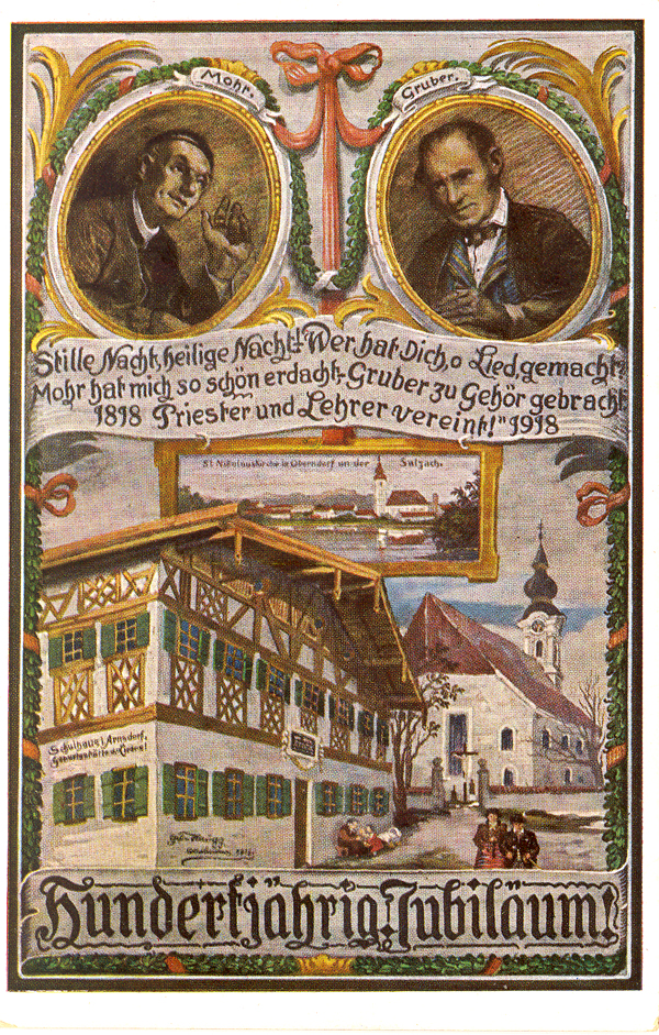 100th anniversary of Silent Night Christmas carol.